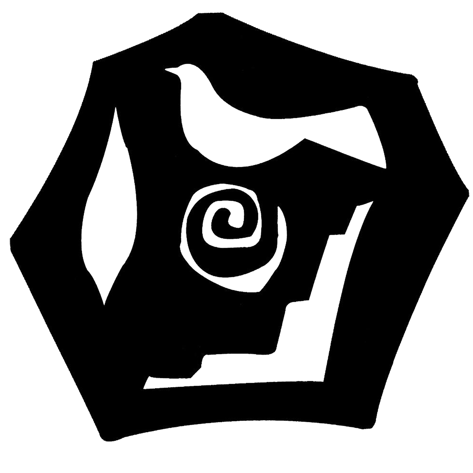 In the logo, the 'Chakrabhuh' that appears in the middle, it represents 'Unity'; 'Light' on the left side of 'Chakrabhuh', which is representing, 'education'; The 'pigeon' above, which is the symbol of 'peace' and 'stairs / steps' on the bottom right, which means 'progress'. According to Section 2 of the Constitution of Bangladesh Students' Union, the principles of organization: unity, education, peace, progress.